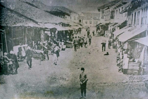 Old Bazaar of Prishtina